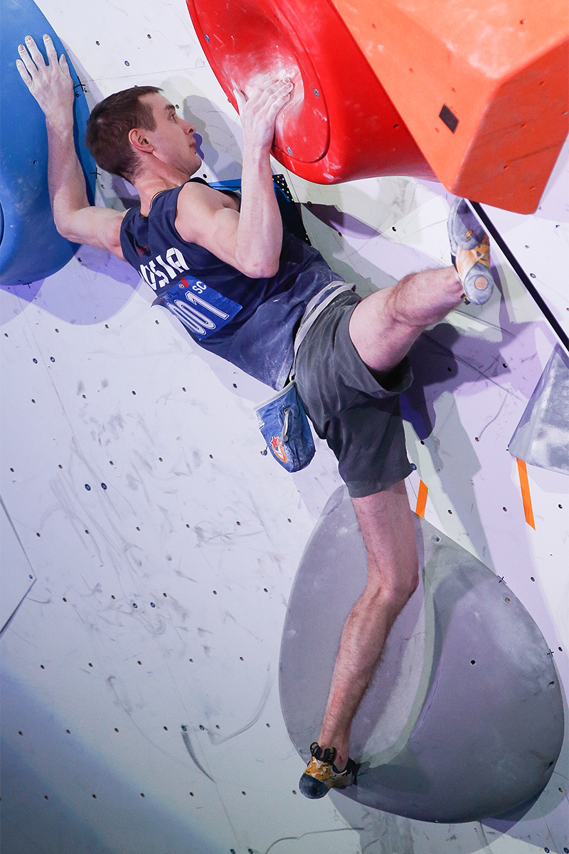 Sport climbing at the 2017 CISM Winter World Games